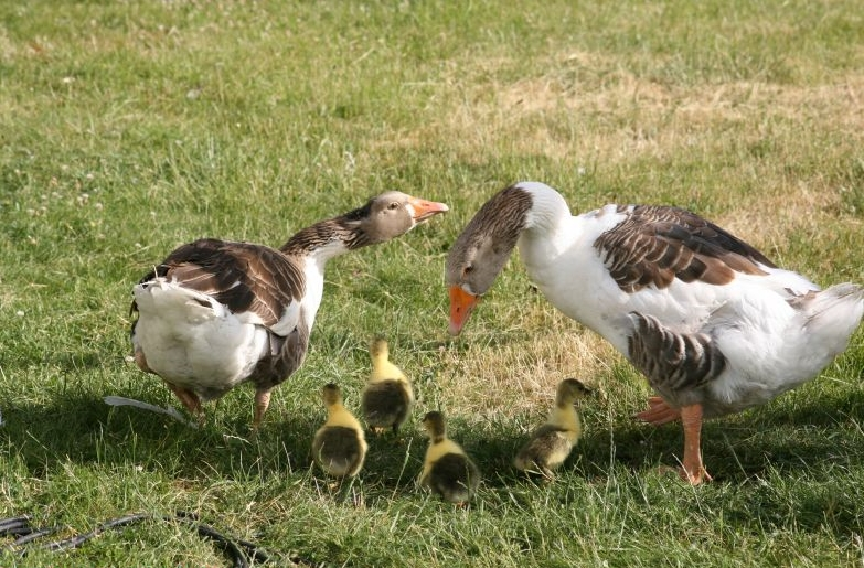 Scania geese with chicken